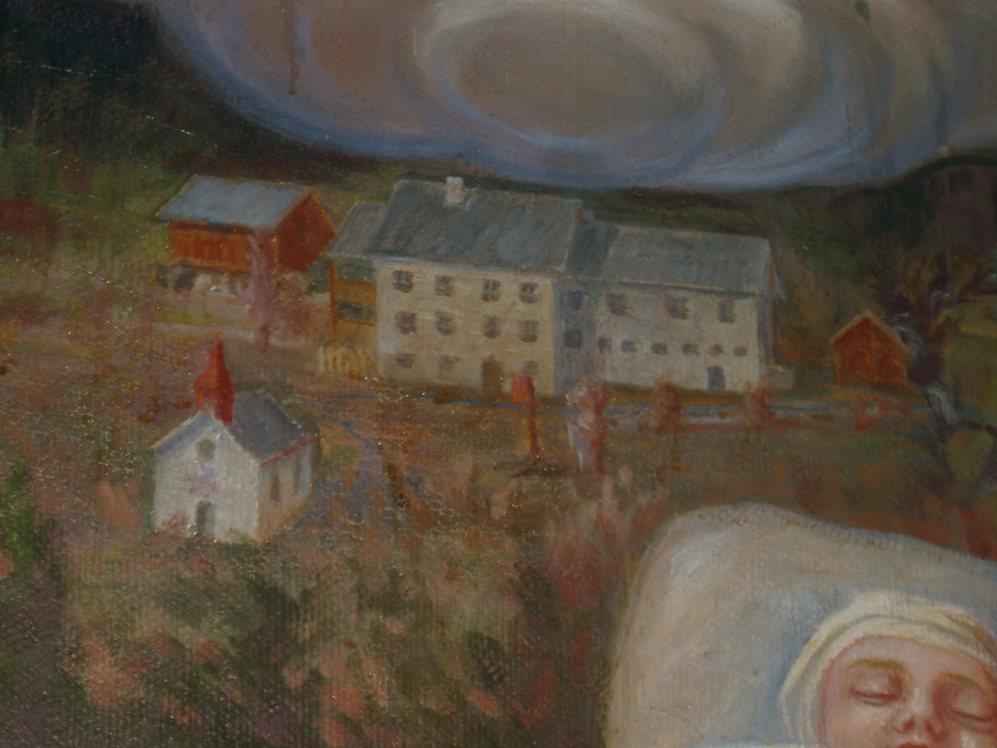 South Tyrol, La Val, Rumesluns: Old Rumestluns Bath, as painted on the altar painting of chapel in foreground of this picture.